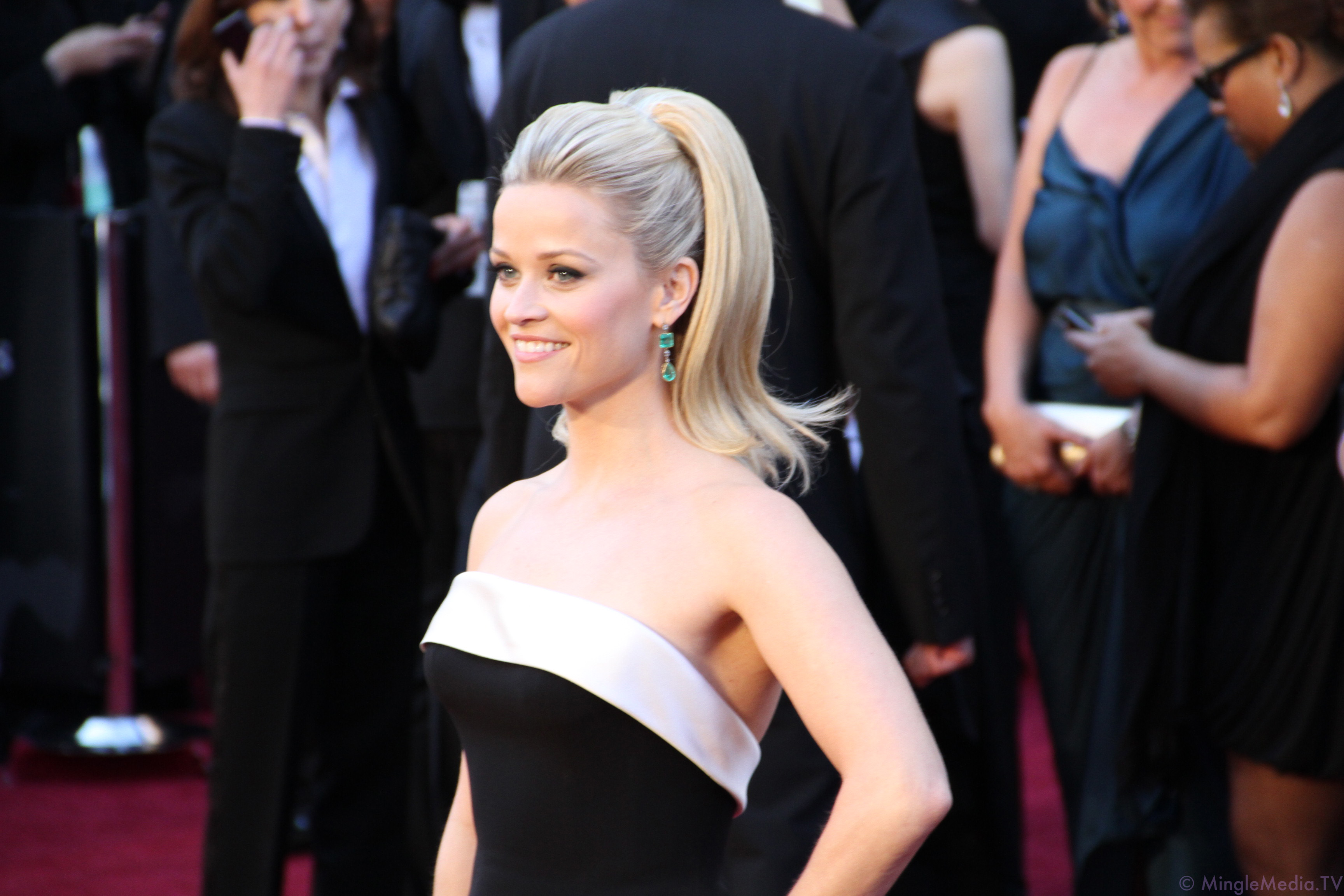 Reese Witherspoon at the 83rd Academy Awards Red Carpet IMG_1306